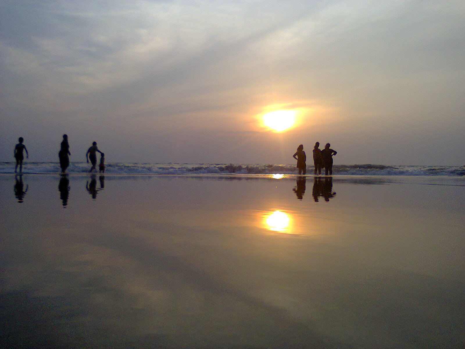 Taken in the Evening at around 1730